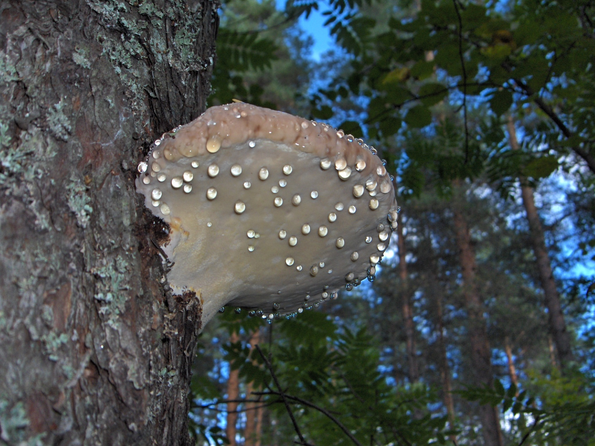 Fomitopsis pinicola